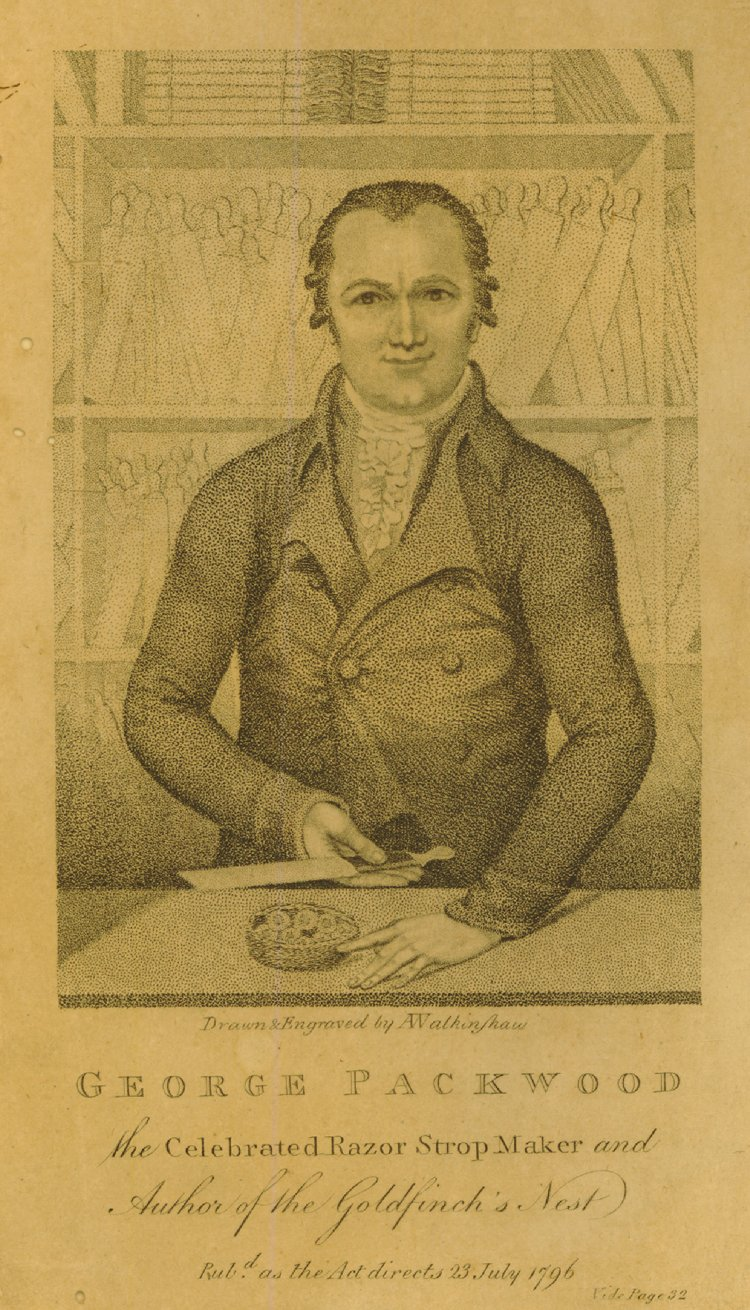 George Packwood